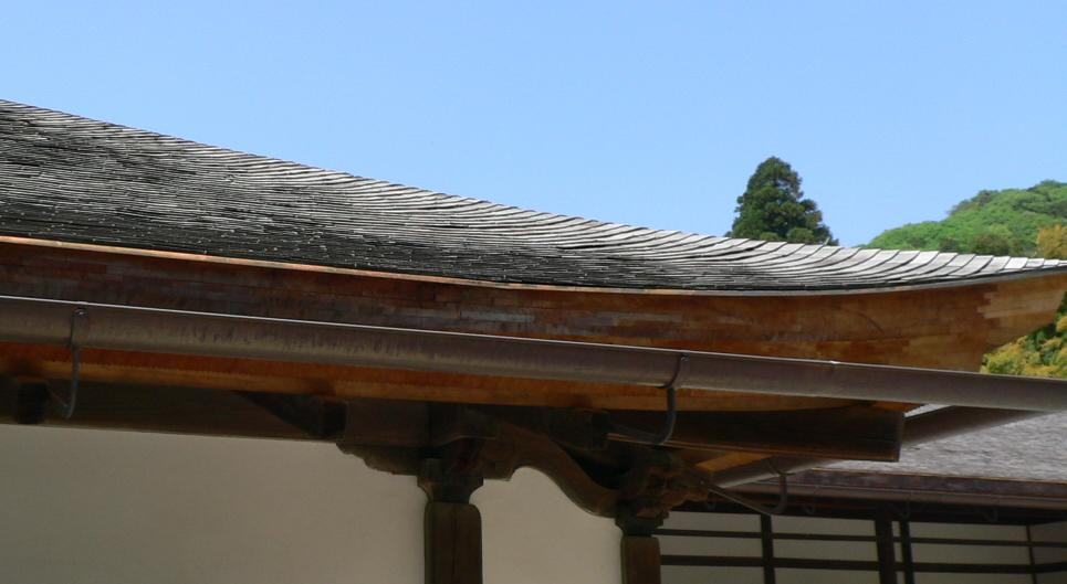 Kokera buki(A kind of antique roof structure in Japan)